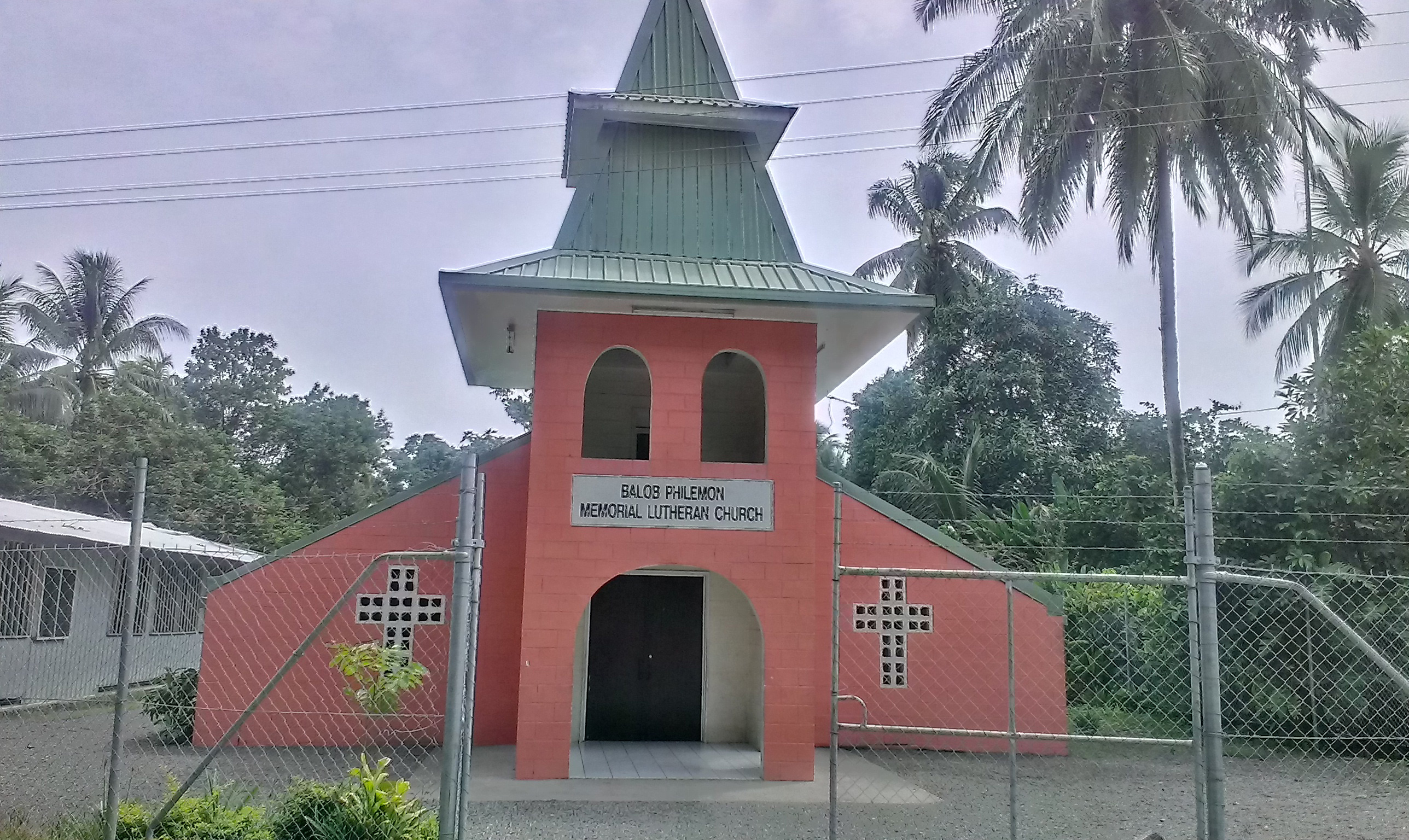 Photo of Balob Lutheran Church in Butibam, Lae, Morobe Province. Photo taken 30 January 2014